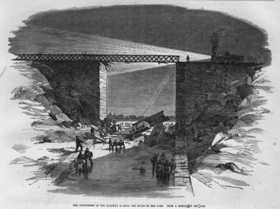 Aftermath of the Desjardins Canal disaster, 1857